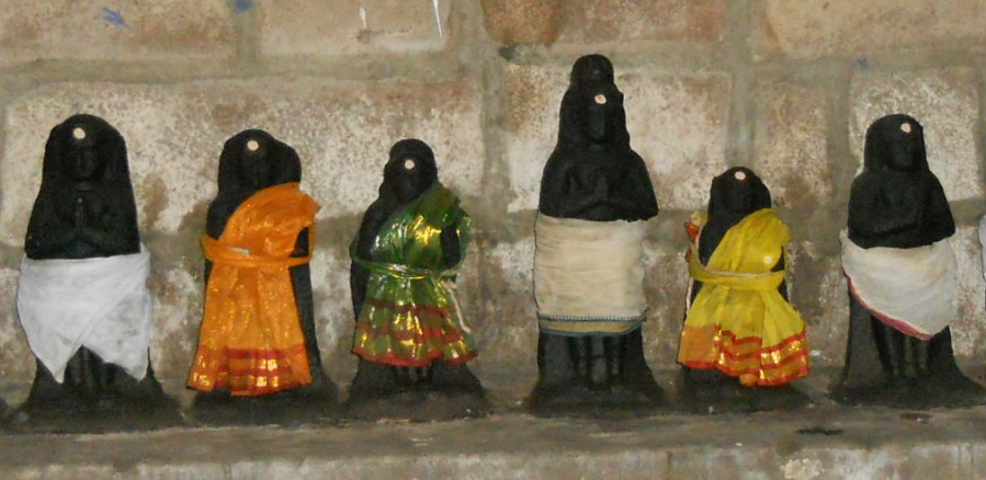 Thiruvalangadu temple Sadaya Nayanar Isai Gnaniyar Paravai Naachiyar Sundarar Sangili Naachiyar Narasingamunaiyara Nayanar